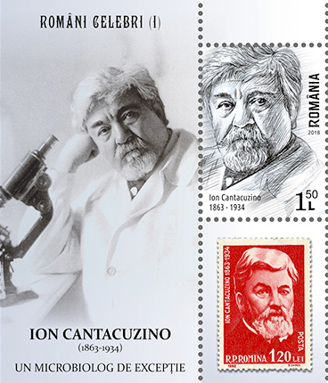 Famous Romanians, part I